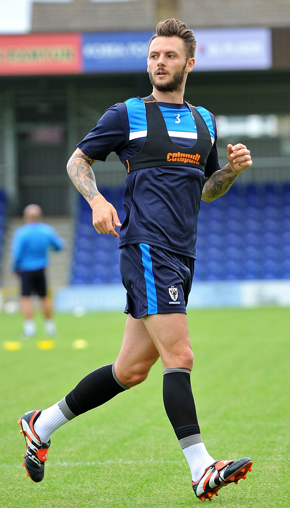 AFC Wimbledon players train during the club's open day at The Cherry Red Records Stadium, 4 August 2015